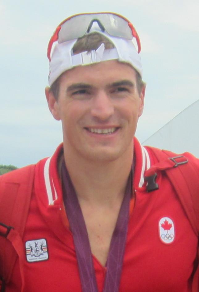 Douglas Csima with wife Megan and parents Les and Kathy after winning silver medal